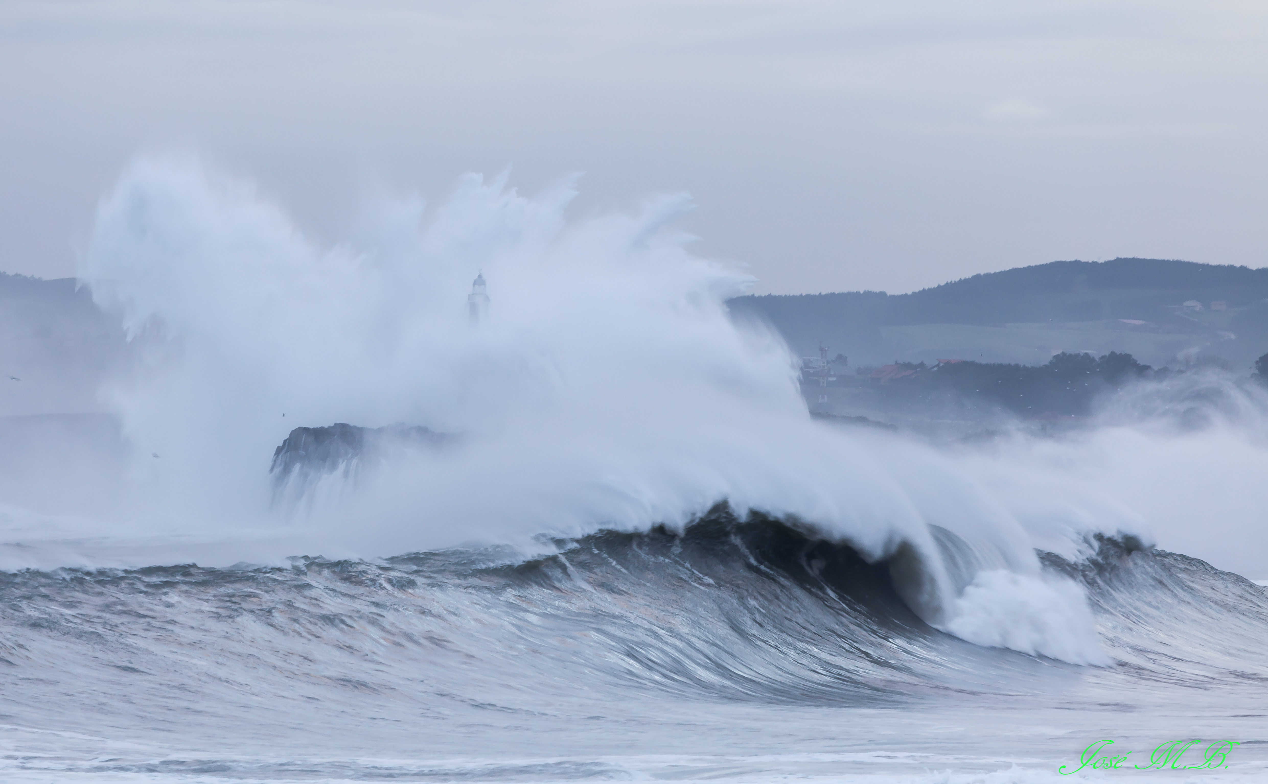 Splashing water wave in Sardinero, Santander.